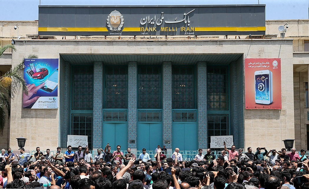 Tehran Grand Bazaar strikes and protests to the economic situation